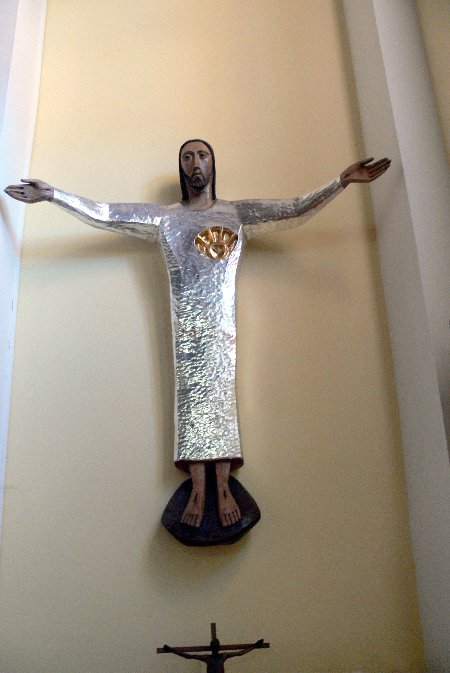 Saint Giles parish church in Oberkappel ( Upper Austria ). Statue of the Sacred Heart of Jesus ( 1956 ) by Josef Fischnaller.